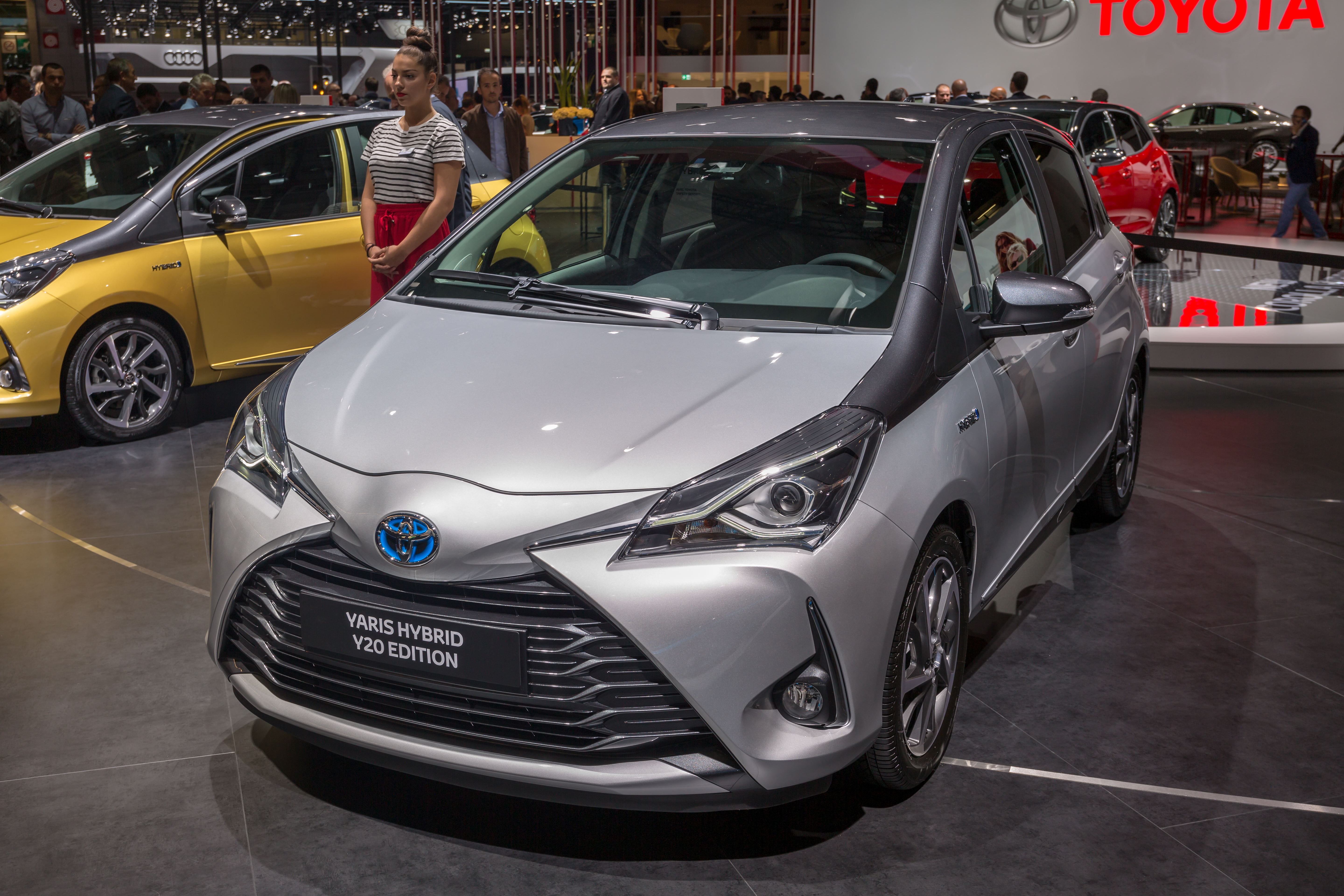 Toyota Yaris Y20 edition, Mondial Paris Motor Show 2018